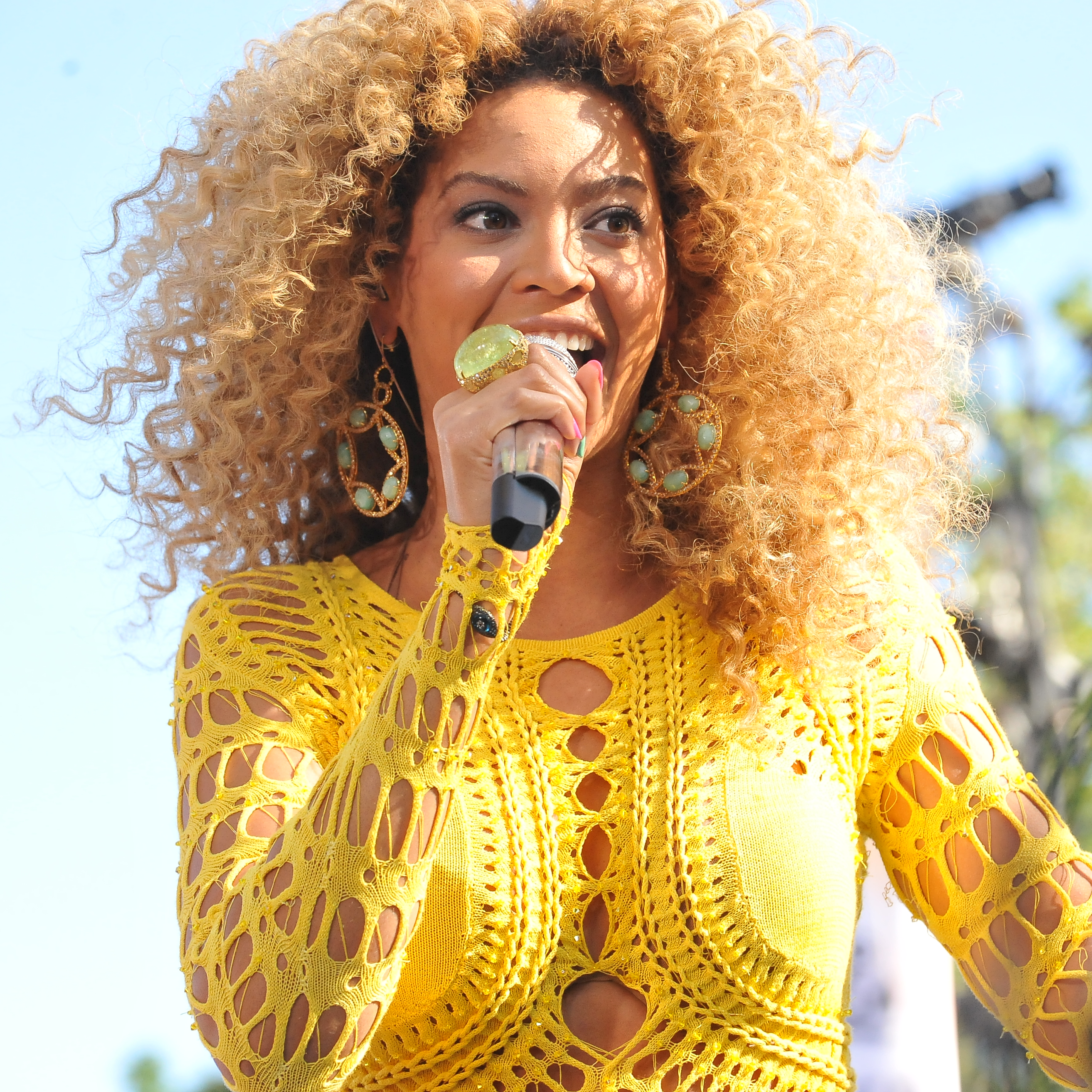 BEYONCE CONCERT IN CENTRAL PARK 2011 / Good Morning America's Summer Concert Series - Central Park, Manhattan NYC - 07/01/11